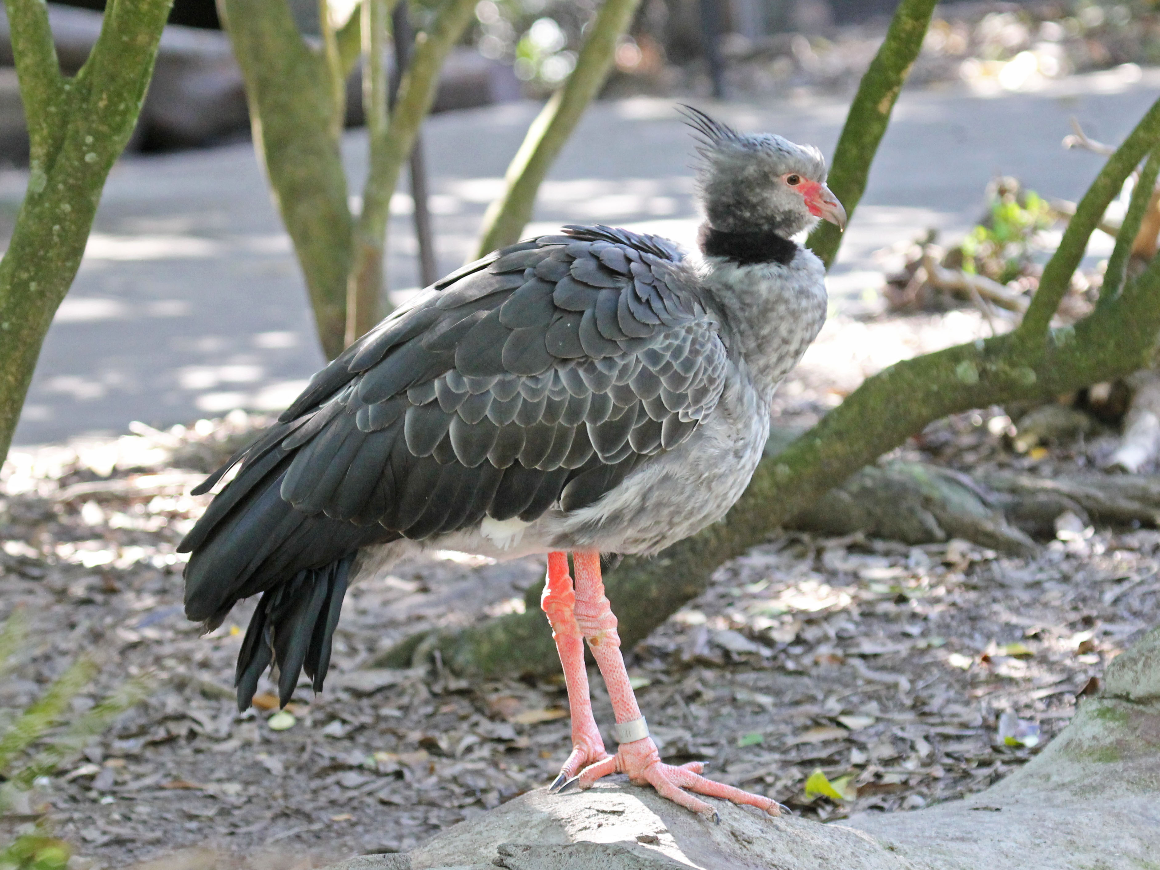 Southern Screamer (Chauna torquata) - Jacksonville Zoo, Florida